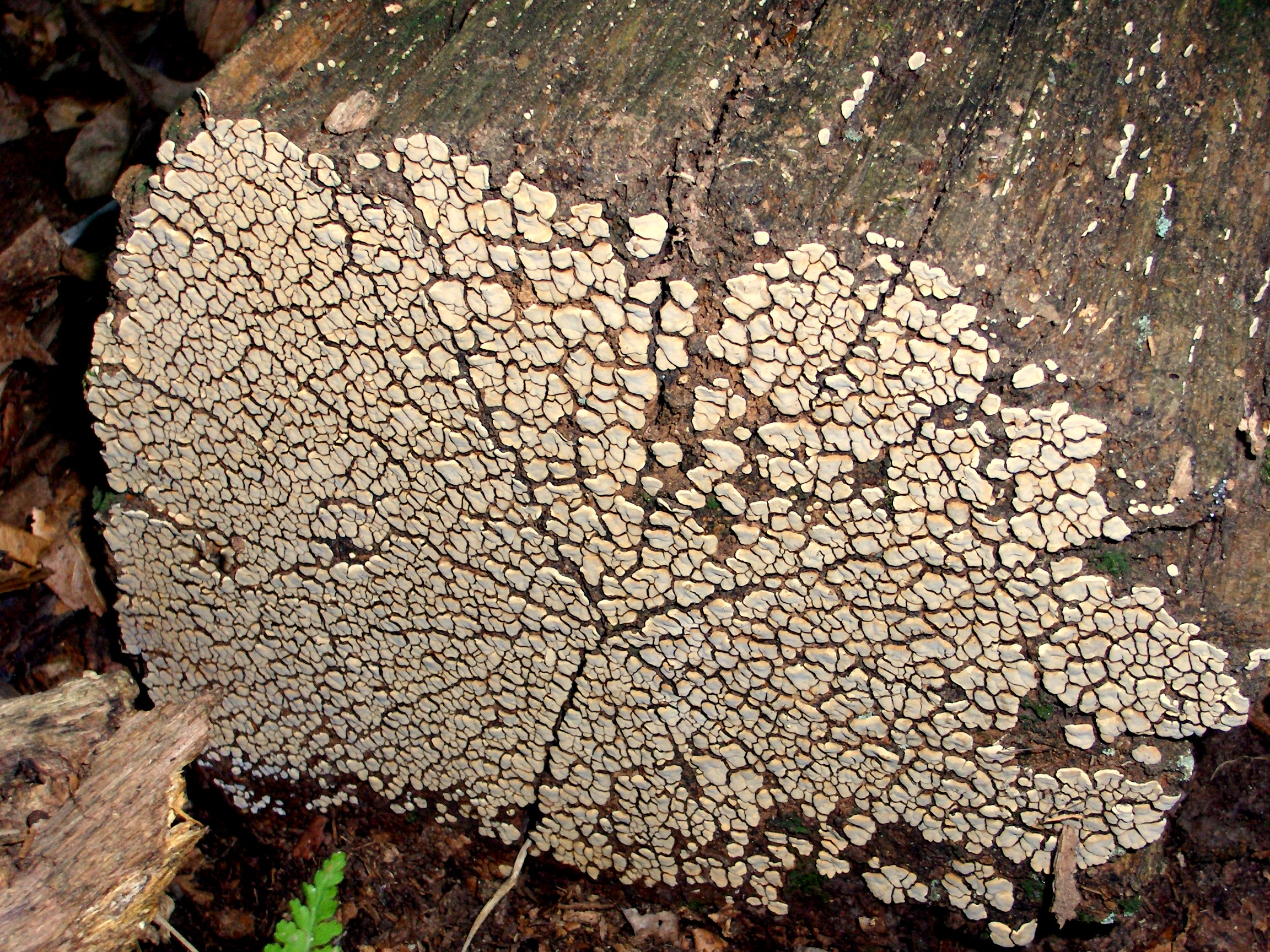 Xylobolus frustulatus - the ceramic fungus. It forms a crust on debarked oak, digesting lignin and cellulose, leaving a honeycomb pattern of decay. Normally seen running along the surface of a log, I thought this growth was particularly striking along the cut face of a felled tree. Found in the Delaware River Gap National Park last summer.